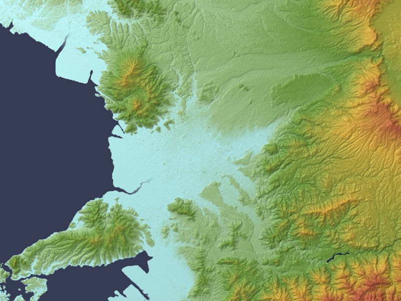 Kumamoto Plain in Kumamoto Prefecture, Kyushu, Japan.